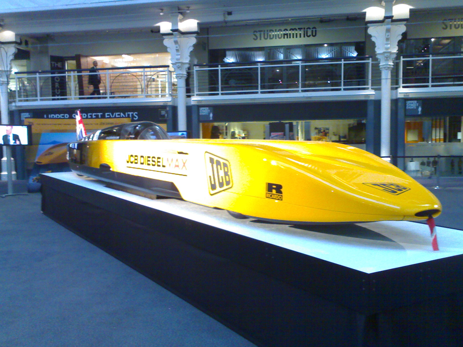 Taken on Nov 28, 2006 at the CBI annual conference at the Business design Centre in Islington, London